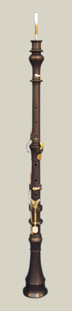 Classical oboe Classical oboe with seven keys, following improvements in the Baroque oboe from the mid-18th century. Copy of Sand Dalton on the original by Johann Friedrich Floth, c. 1805.